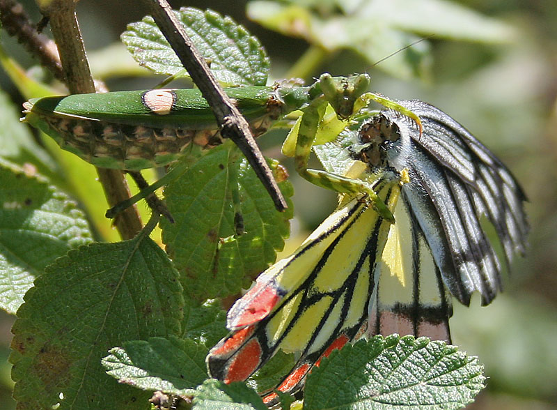 Praying Mantis in Narsapur, Andhra Pradesh, India.